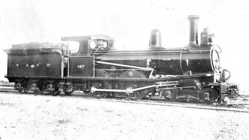 A three quarter view of WAGR T class steam locomotive no. 167, in its first Western Australian Government Railways (WAGR) livery, shortly after it was acquired by the WAGR in 1896.